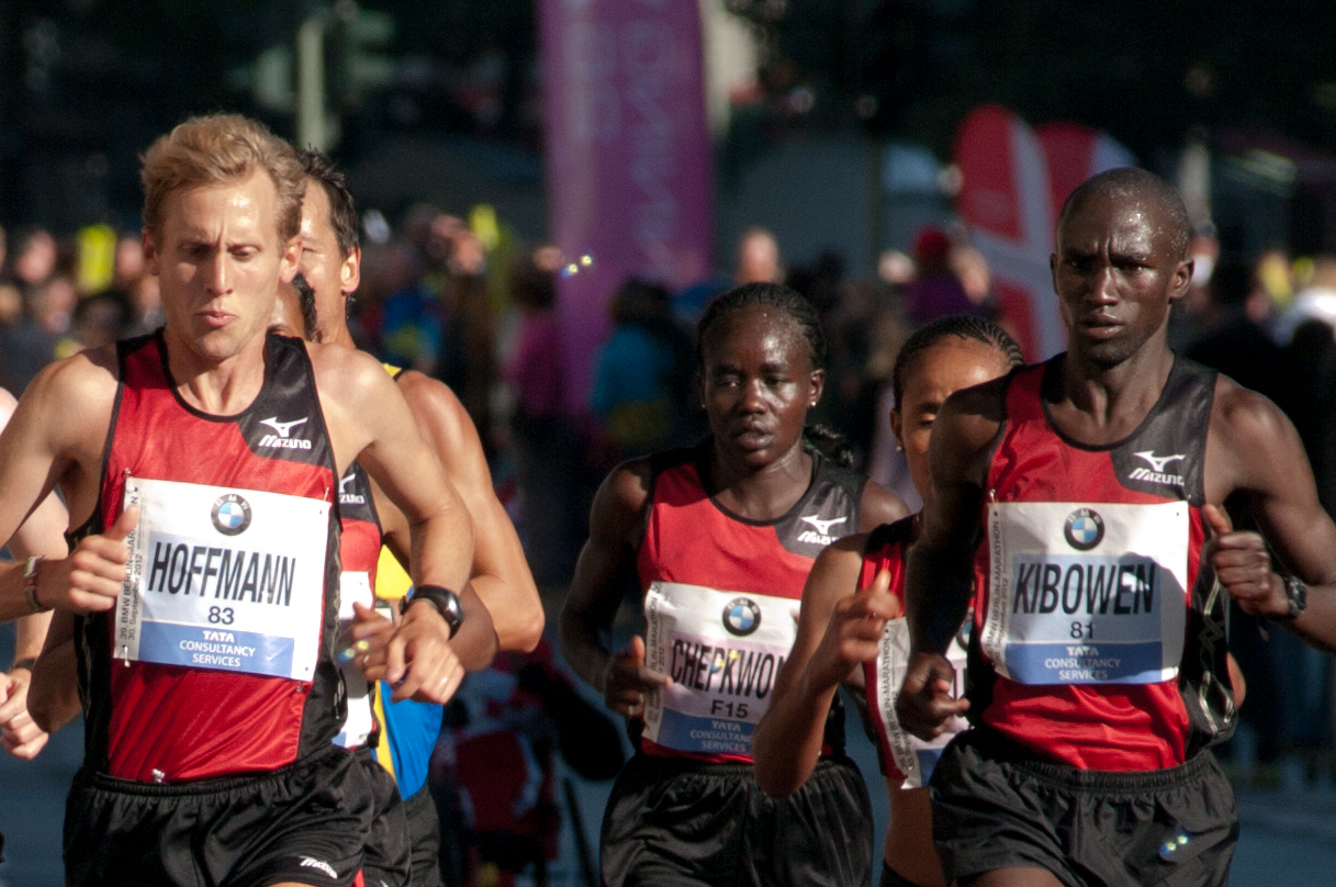 Elite runners at the Berlin Marathon 2012 passing Kleistpark between Kilometers 21 and 22.